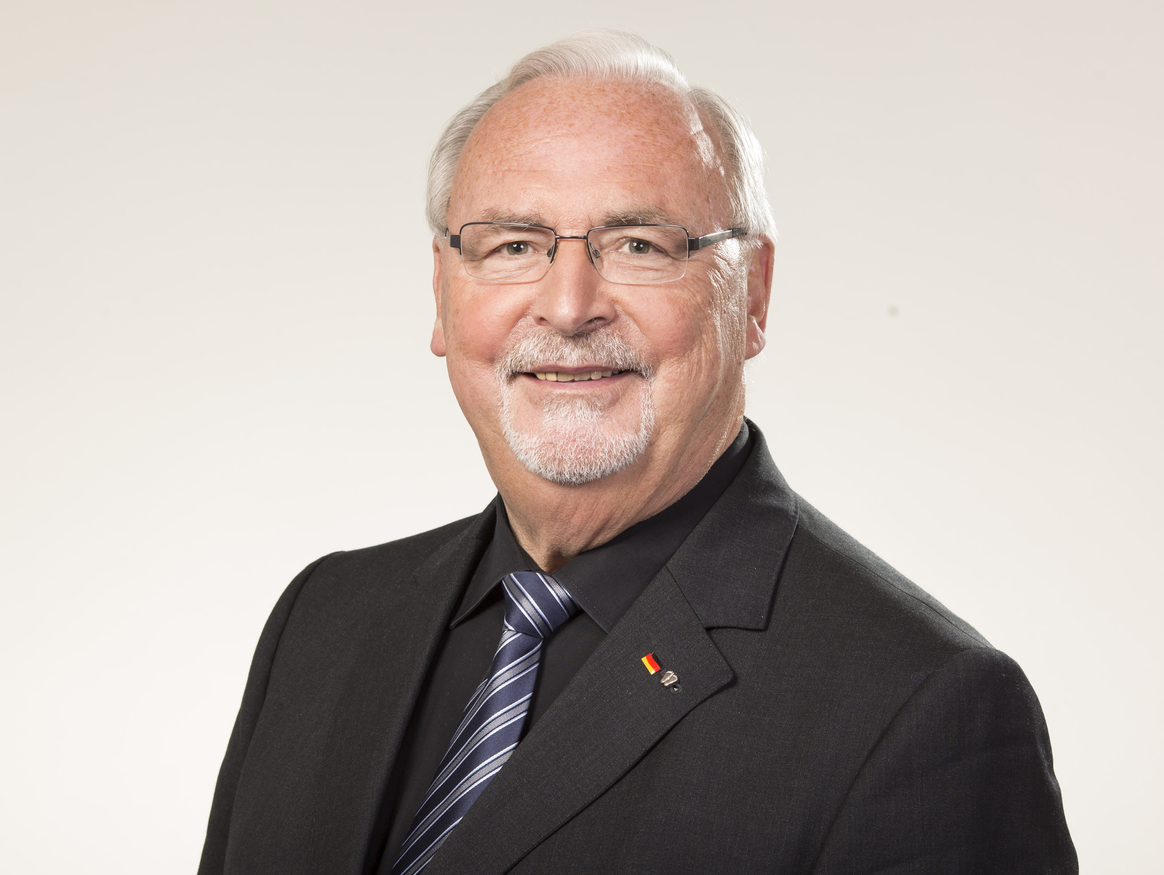 The member of the federal german parliament Wolfgang Zöller (* 1942)